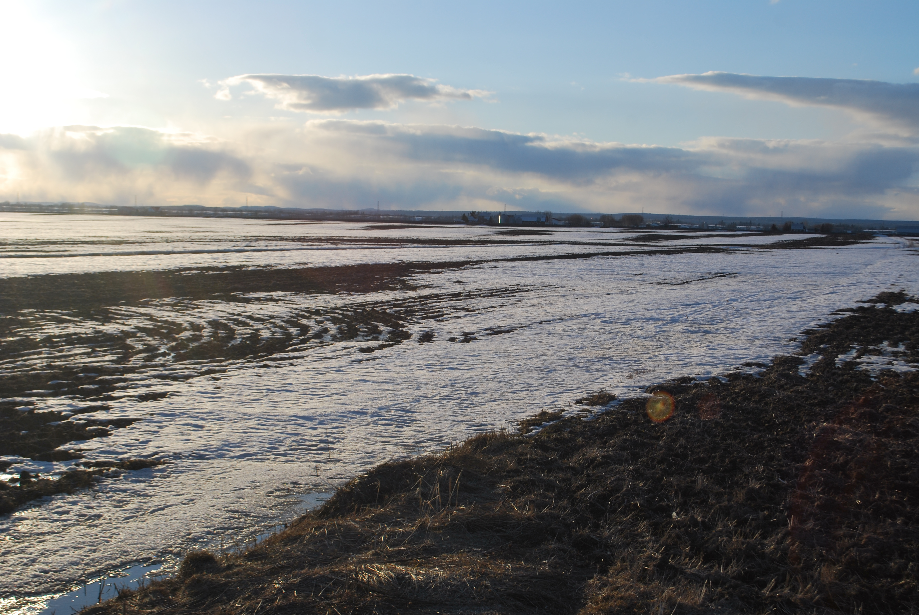 Saint-Cuthbert.